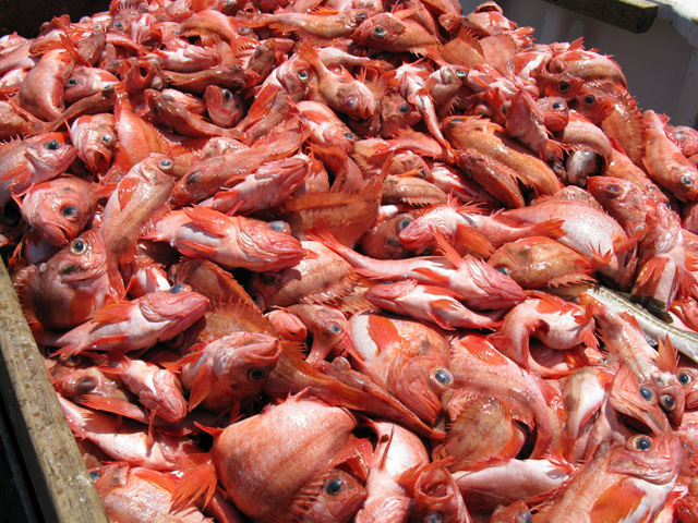 Catch of Acadian redfish, Sebastes fasciatus